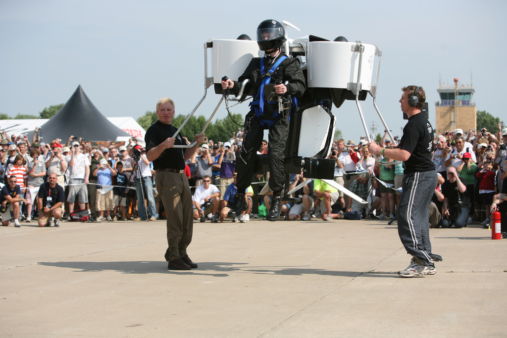 This is the first public flight of the Martin Jetpack. It took place at AirVenture 2008 in Oshkosh. The pilot is Glenn Martin's son, Harrison.